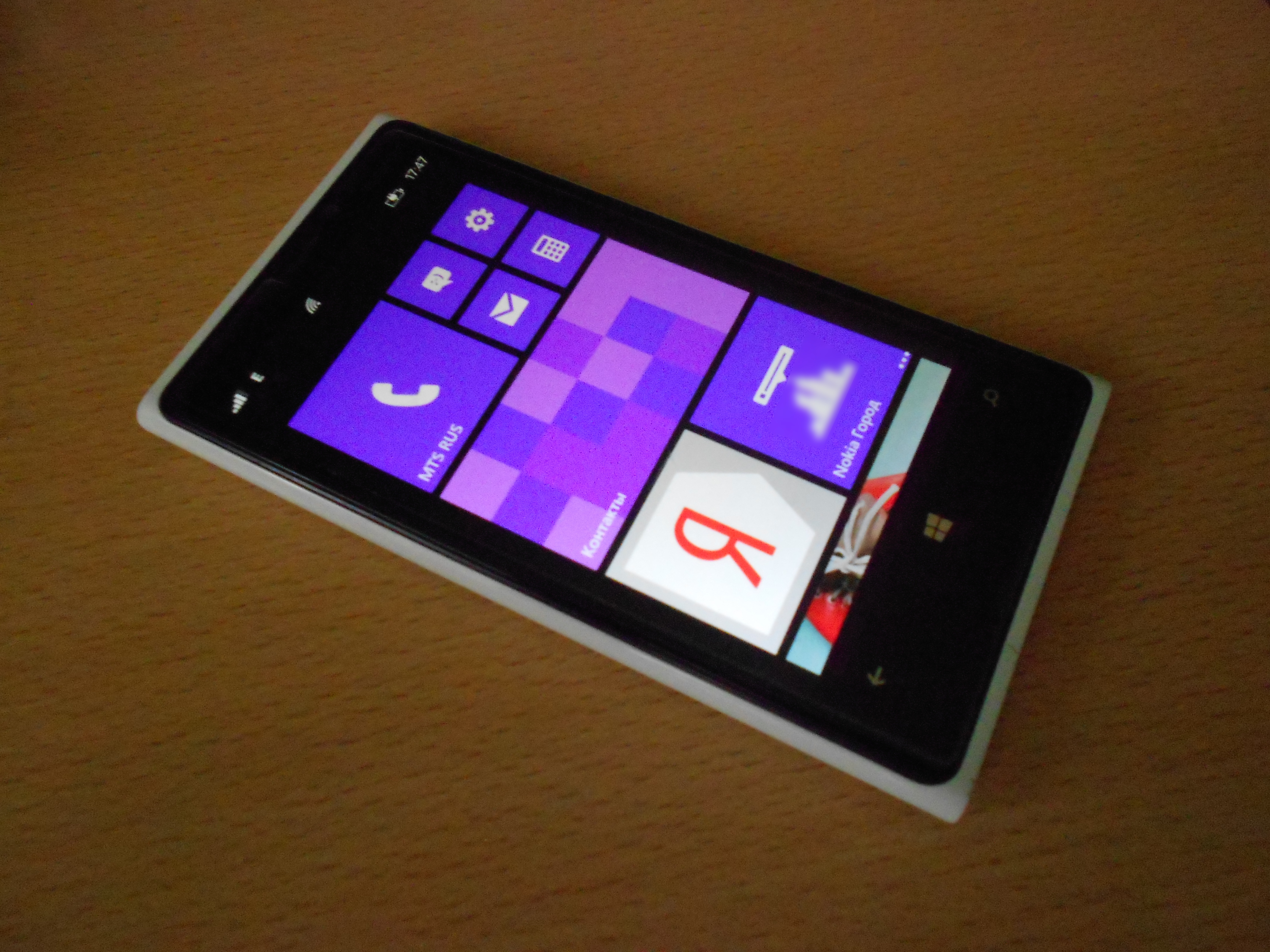 Nokia Lumia 920